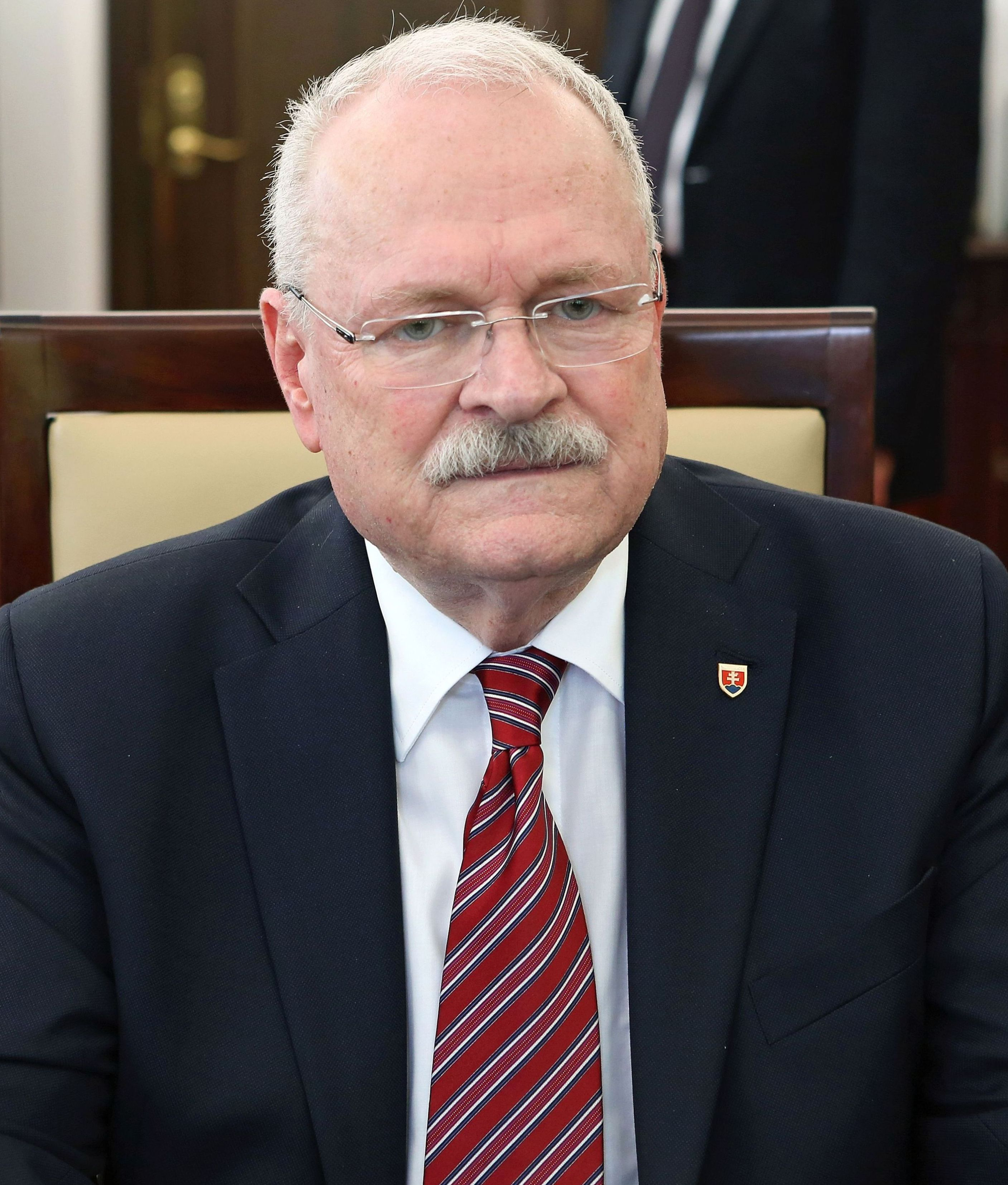 President of Slovakia Ivan Gašparovič in the Polish Senate